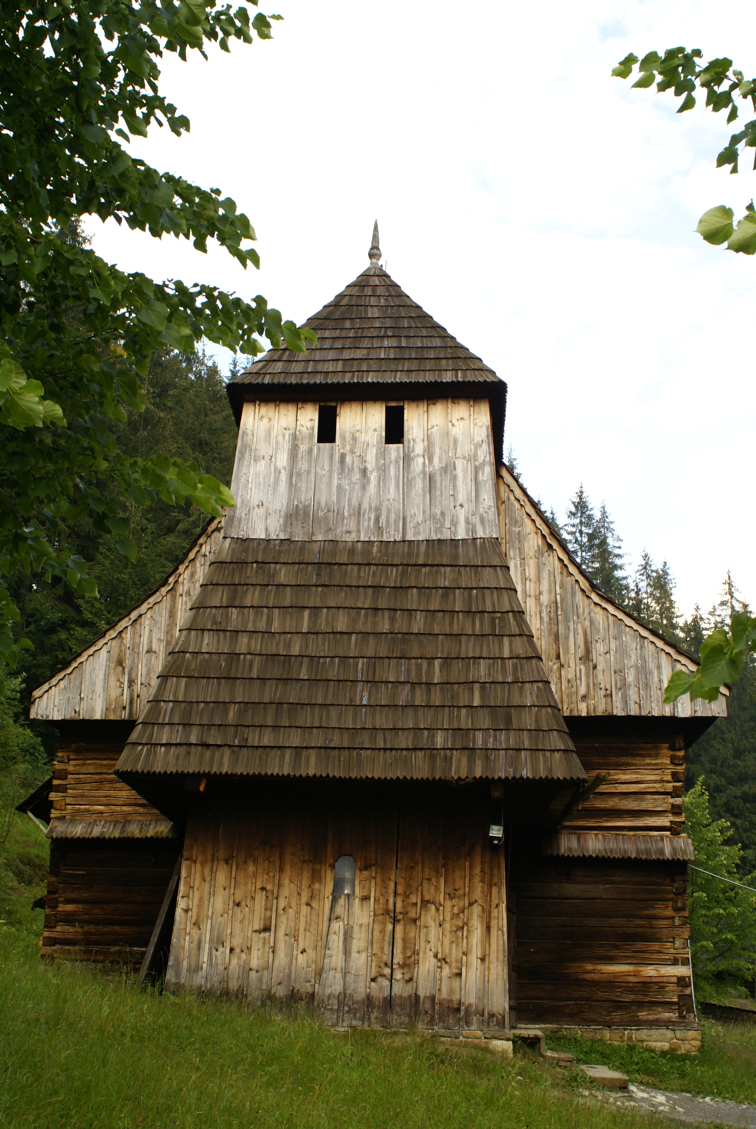 Open air museum of typical slovakian old Orava village, Zuberec, West Tatras, Slovak Republic